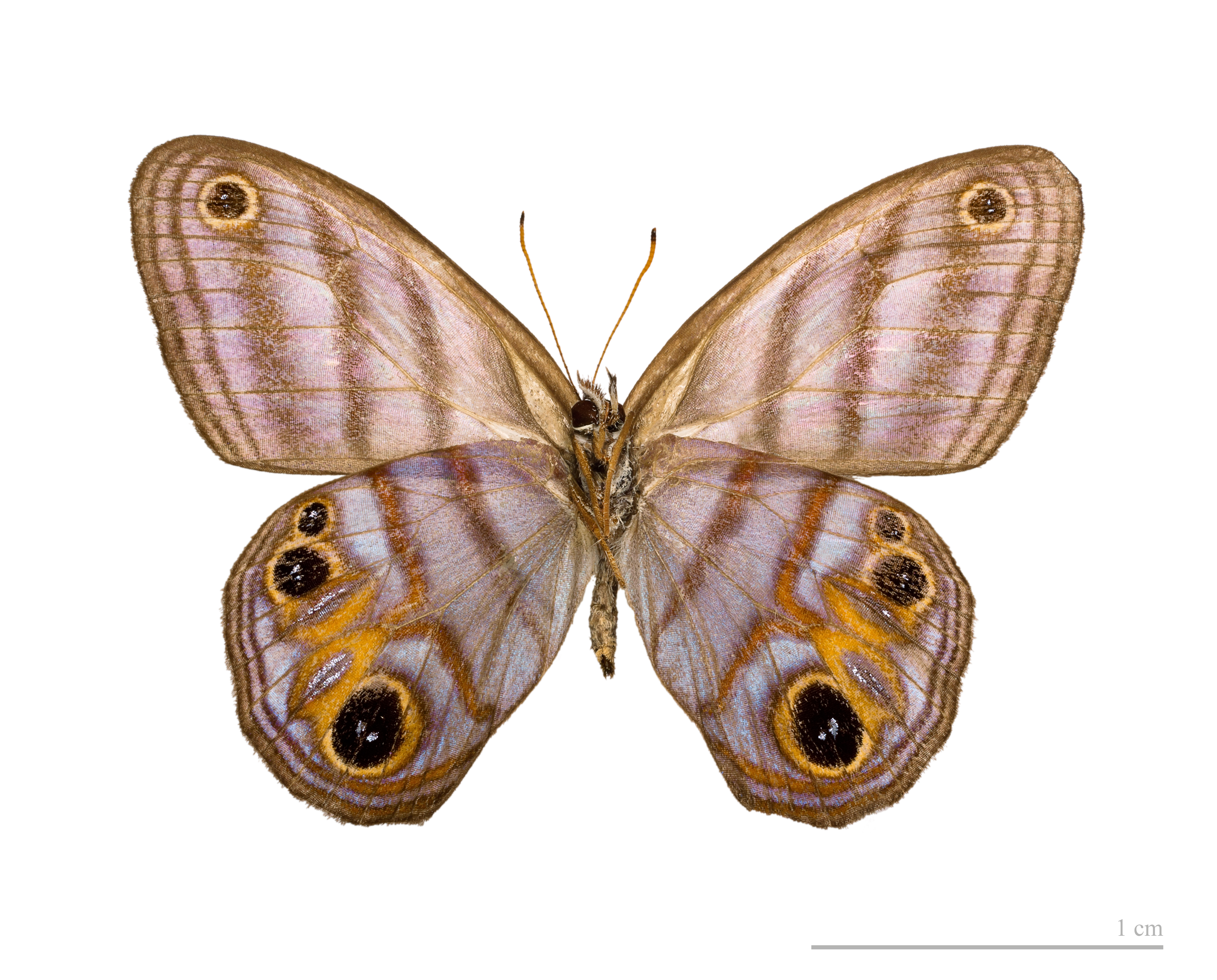 ♂ - △ Ventral side Locality : Cacao, Crique Baguot, French Guiana.